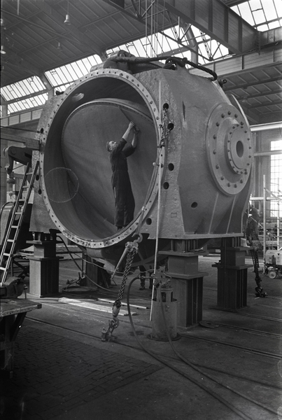 A valve for Tokke hydropower plant put together by Kvaerner Brug. The unit weighs 90 tons. Norway, Oslo, Lodalen, March 1964.